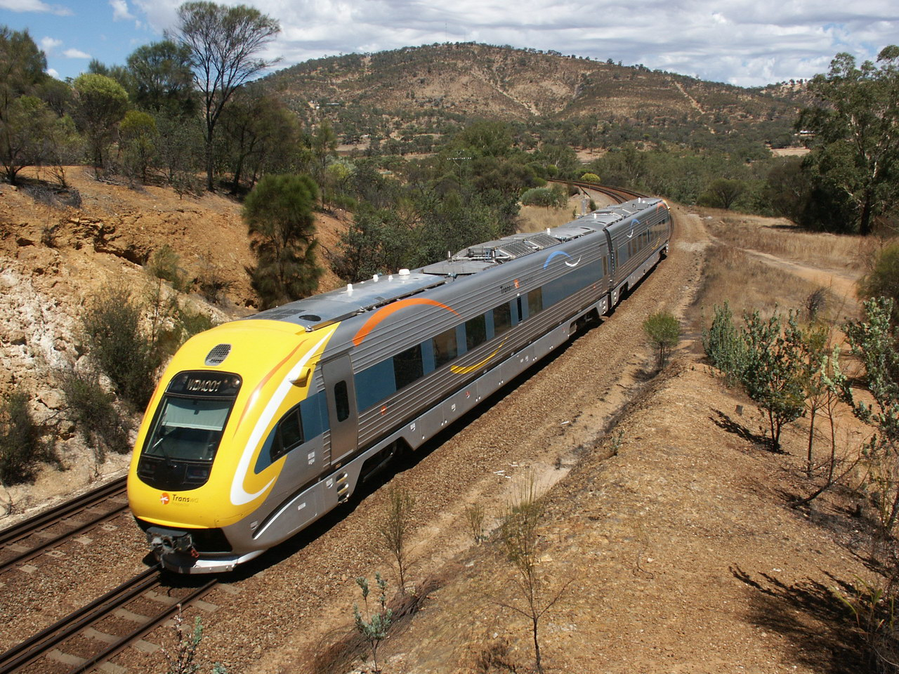 Transwa Prospector on trial at Windmill Cutting near Toodyay, Western Australia.